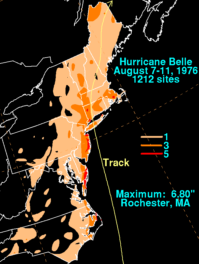 Storm total rainfall map of Hurricane Belle during August 1976.